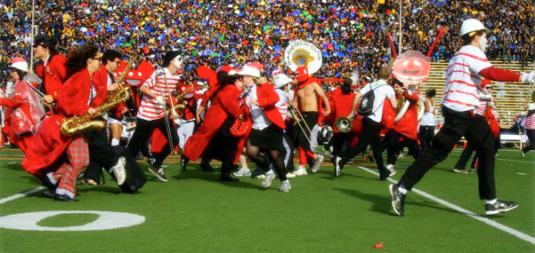 Stanford Band scattering during big game 2010